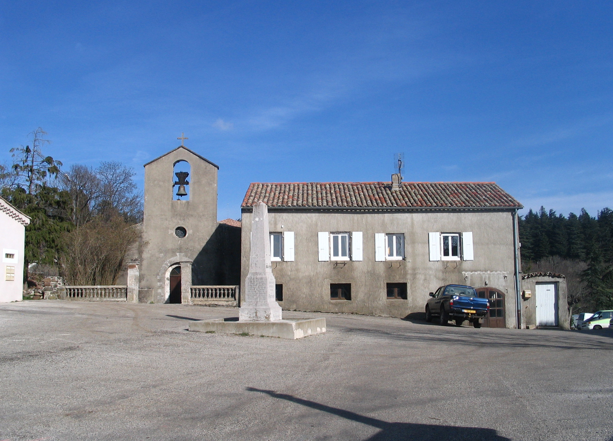 Berzème is a village in the Ardèche region, France